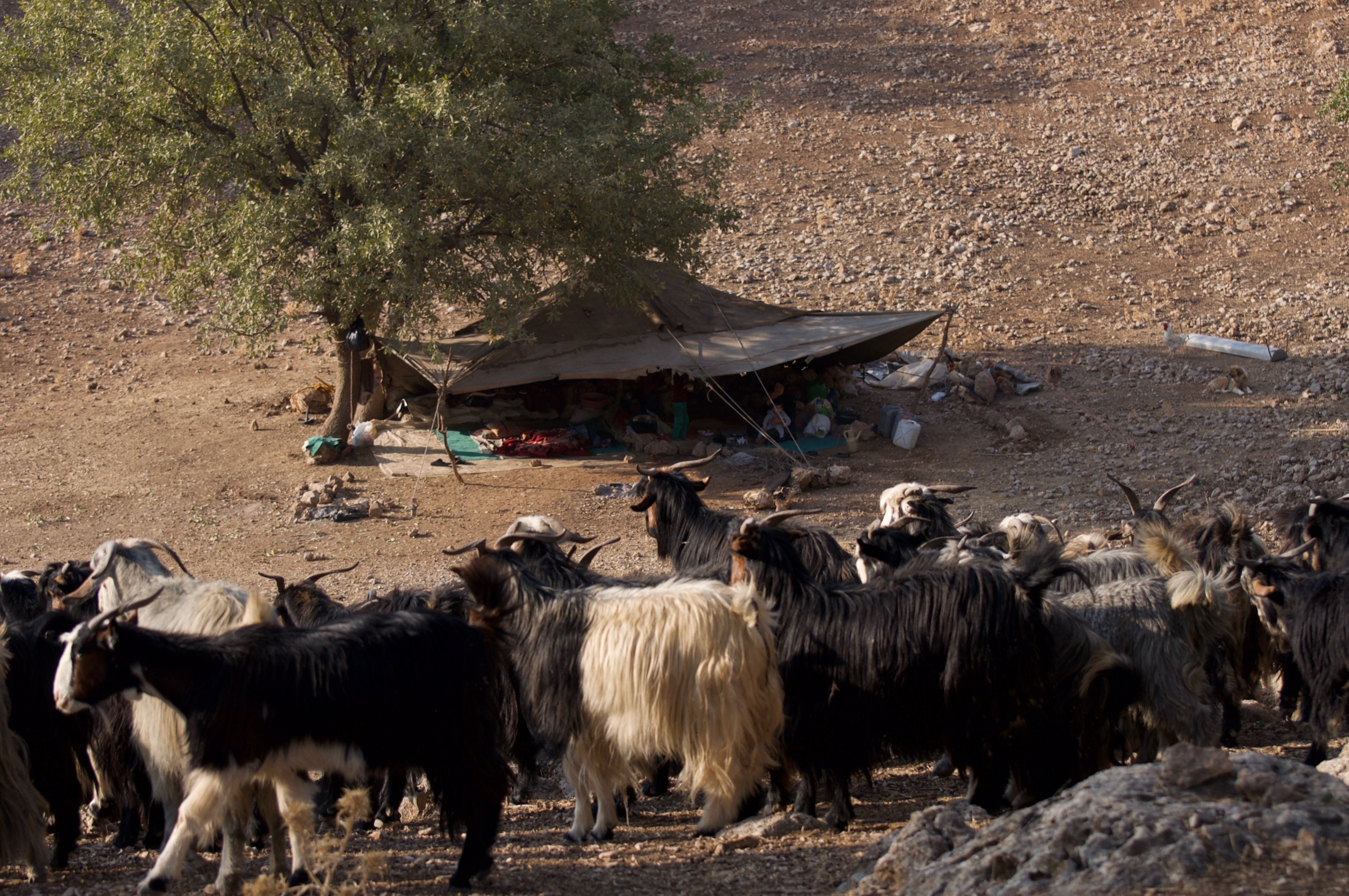 A bakhtiari nomad camp in Bazoft Iran